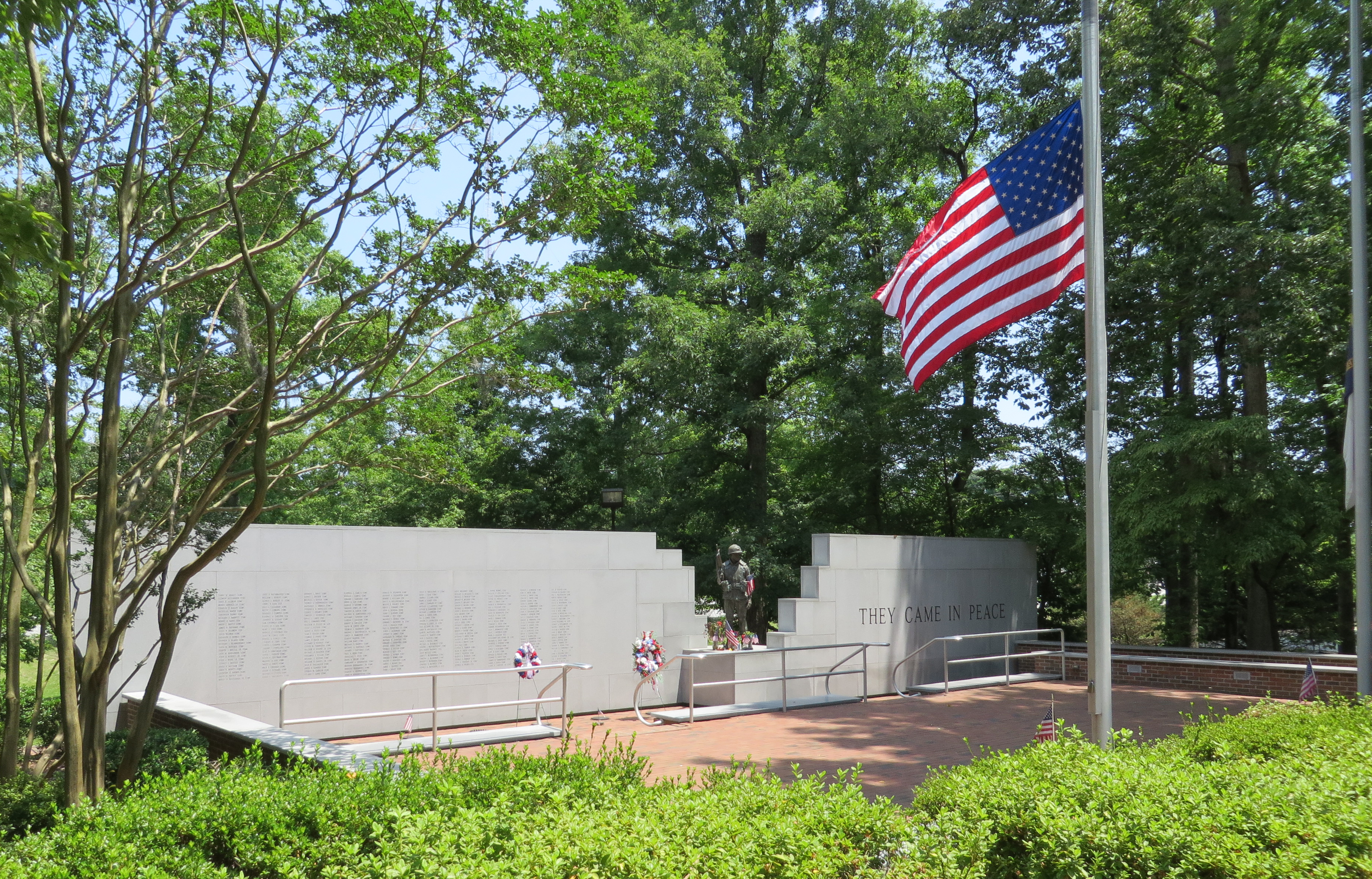 Beirut Memorial located at the intersection of Lejeune Boulevard and Montford Landing Road near Camp Geiger, Jacksonville, North Carolina.